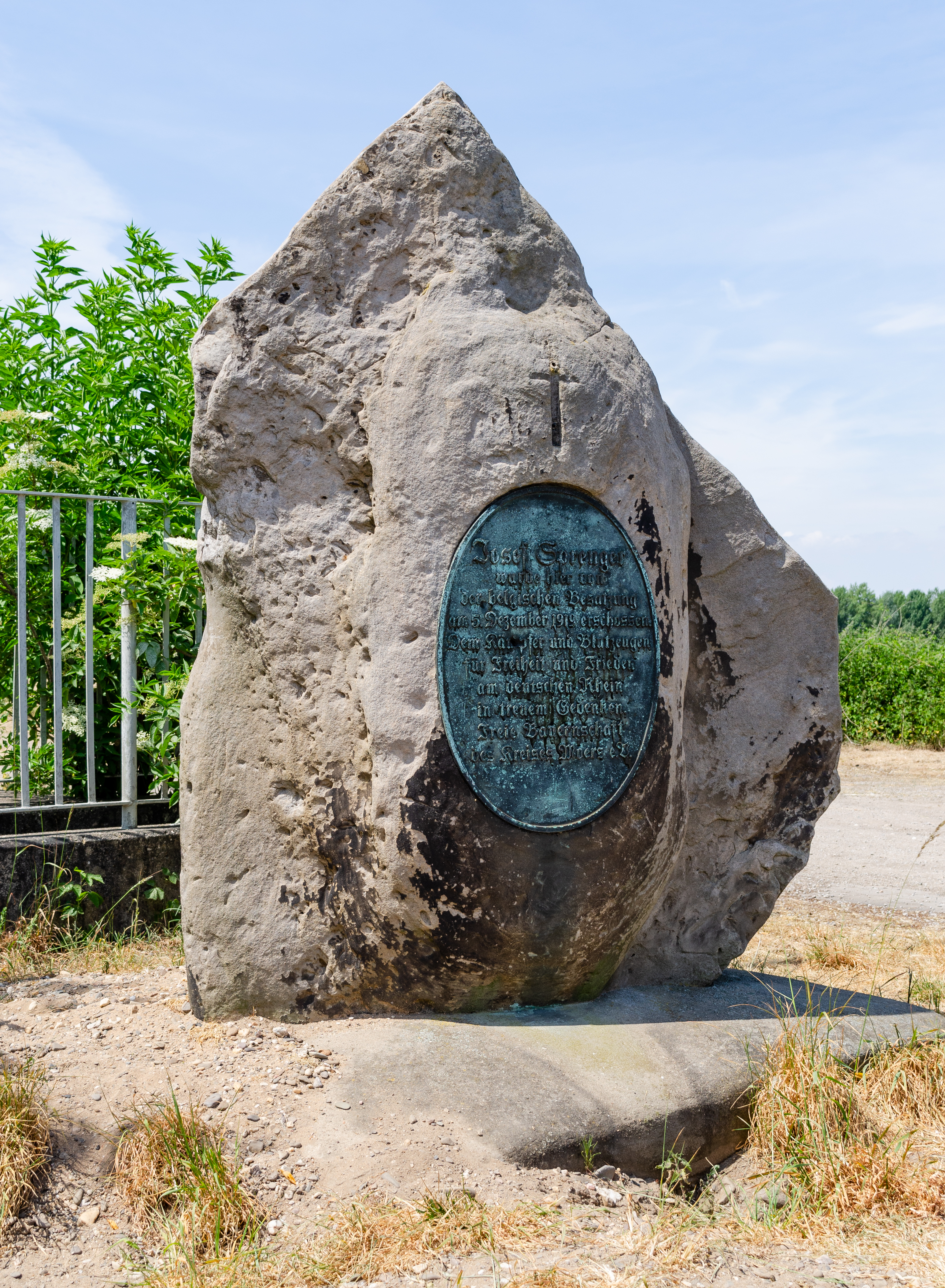 Rheinberg (North Rhine-Westphalia, Germany) – memorial stone “An der Momm” (Josef Sprenger, † 1919)